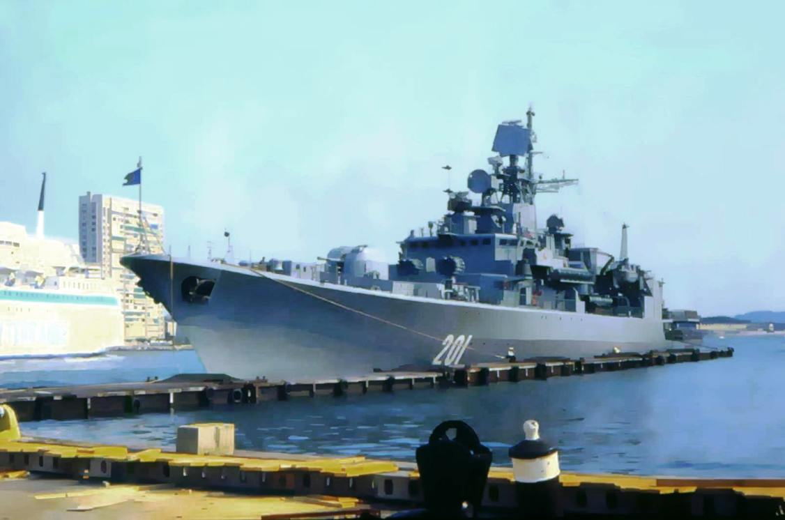 Frigate Het’man Sahaidachnyi, 1994.